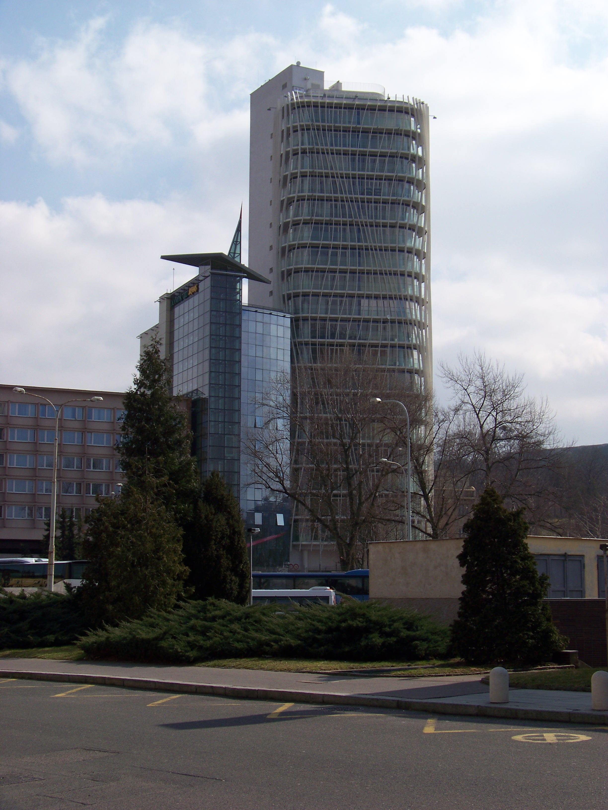 Prague-Karlín, the Czech Republic. A view of Olympik Artemis hotel and Sun Tower. - OpenStreetMap(Info)